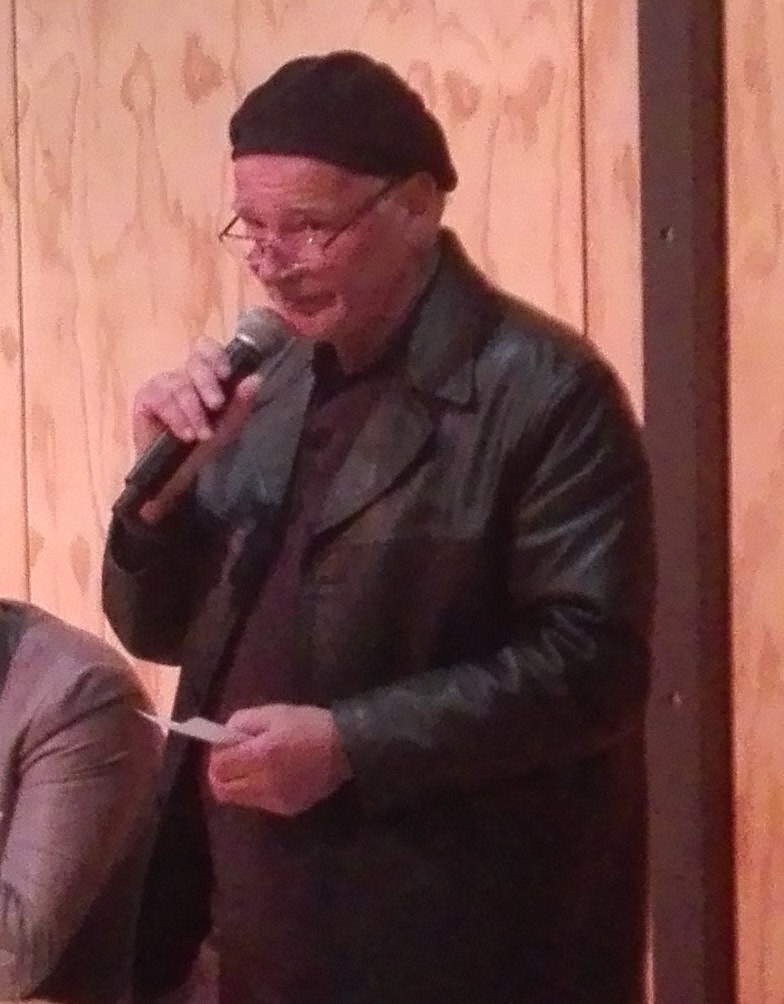 Wellington Mayoral candidate Johnny Overton speaking at a debate